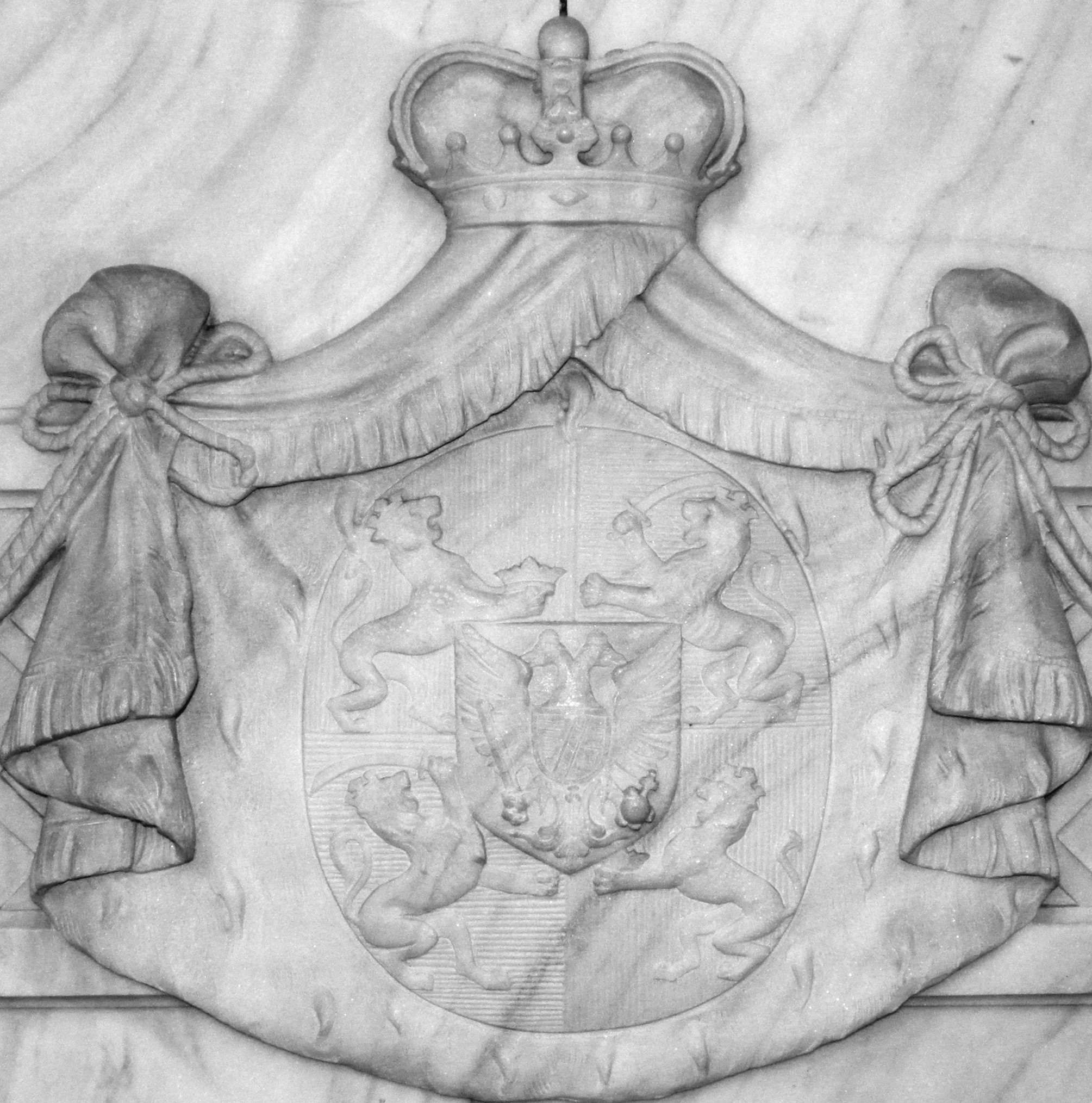 Coat of arms of Imre Thököly. 1906 epitaph in the Evangelic church, Kežmarok, Slovakia. Inscription: "ITT NYUGSZIK A HALHATATLAN SZABADSÁGHÖS // KÉSMÁRKI GRÓF THÖKÖLY IMRE // FELSÖ MAGYARORSZÁG ÉS ERDÉLY FEJEDELME // SZÜLETTET 1657 SEPT. 25ÉN KÉSMÁRKI CSALÁDI VÁRÁBAN // MEGHALT 1705 SEPT. 13ÁN SZÁMKIVETÉSBEN // KIS ÁZSIA IZMID NICOMEDIA VÁROSÁBAN // DRÁGA HAMVAIT HOGY A HAZA FÖLDJÉBEN NYUGODJANAK. // A NEMZETI HÁLA VISSZAHOZATVÁN ORSZÁGOS Ü...EPÉLYLYEL 1906 OCT. 30ÁN // SZÜLETÉSE HELYÉN ITT E SZENEGYHÁZBAN TEMETTETTE EL. // ÁLDÁS PORAIN! DICSÖSÉG EMLÉKEZETÉN!"